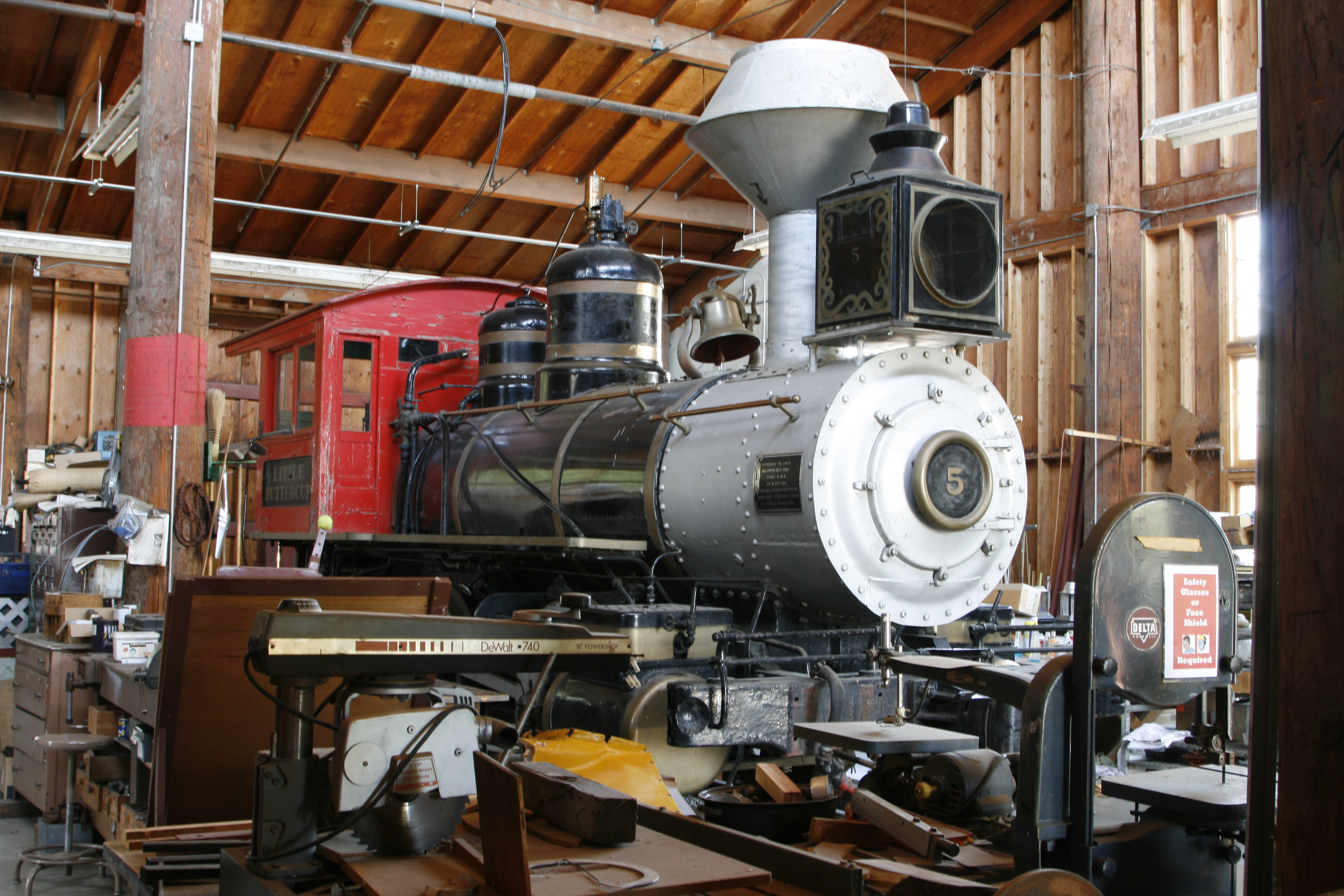 Little Buttercup, Atchison, Topeka and Santa Fe Railway Locomotive #5 on display at the Kelley Park Historic Museum Trolley Barn